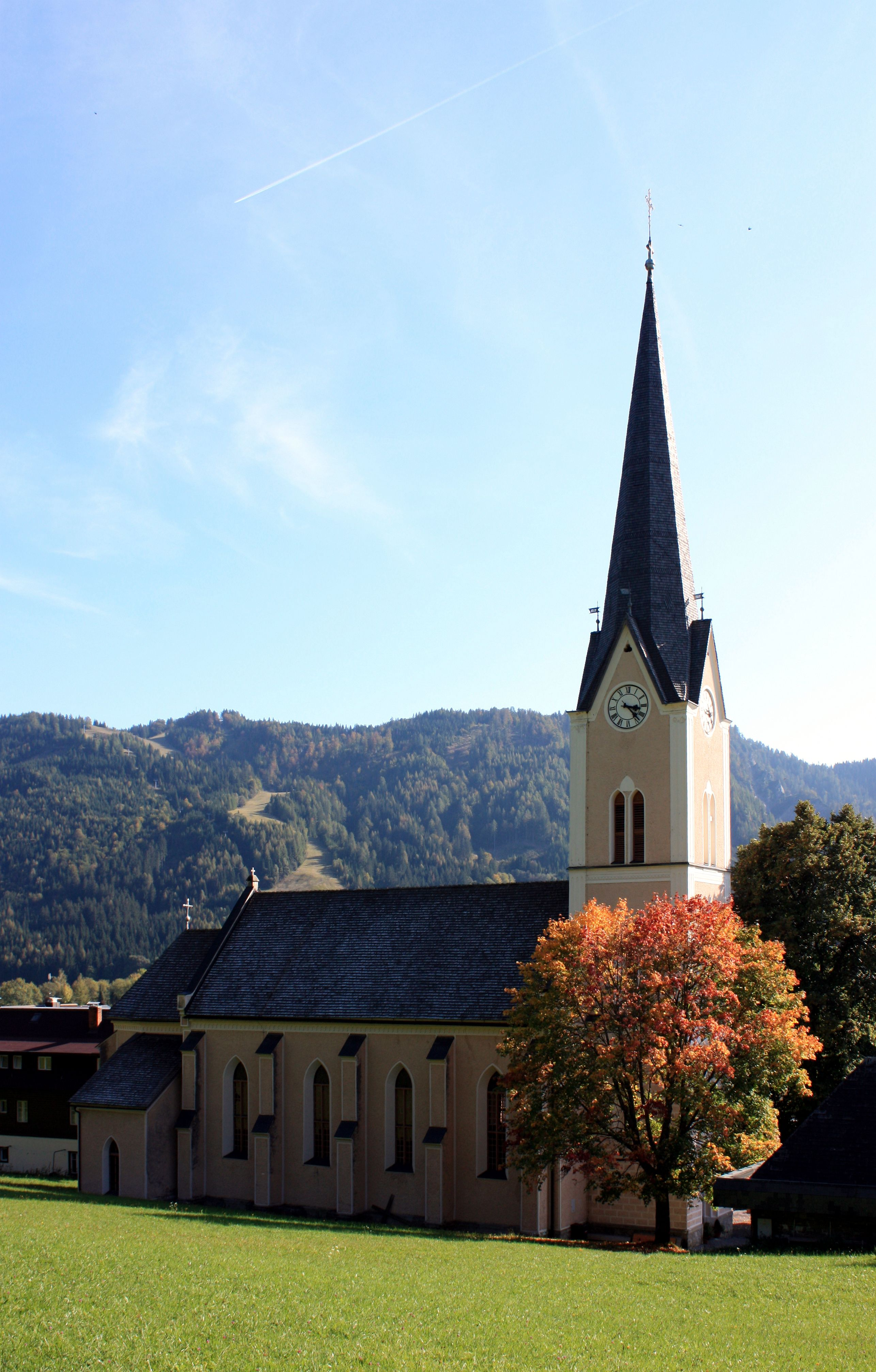 Lutherian church Locality:Techendorf Community:Weißensee